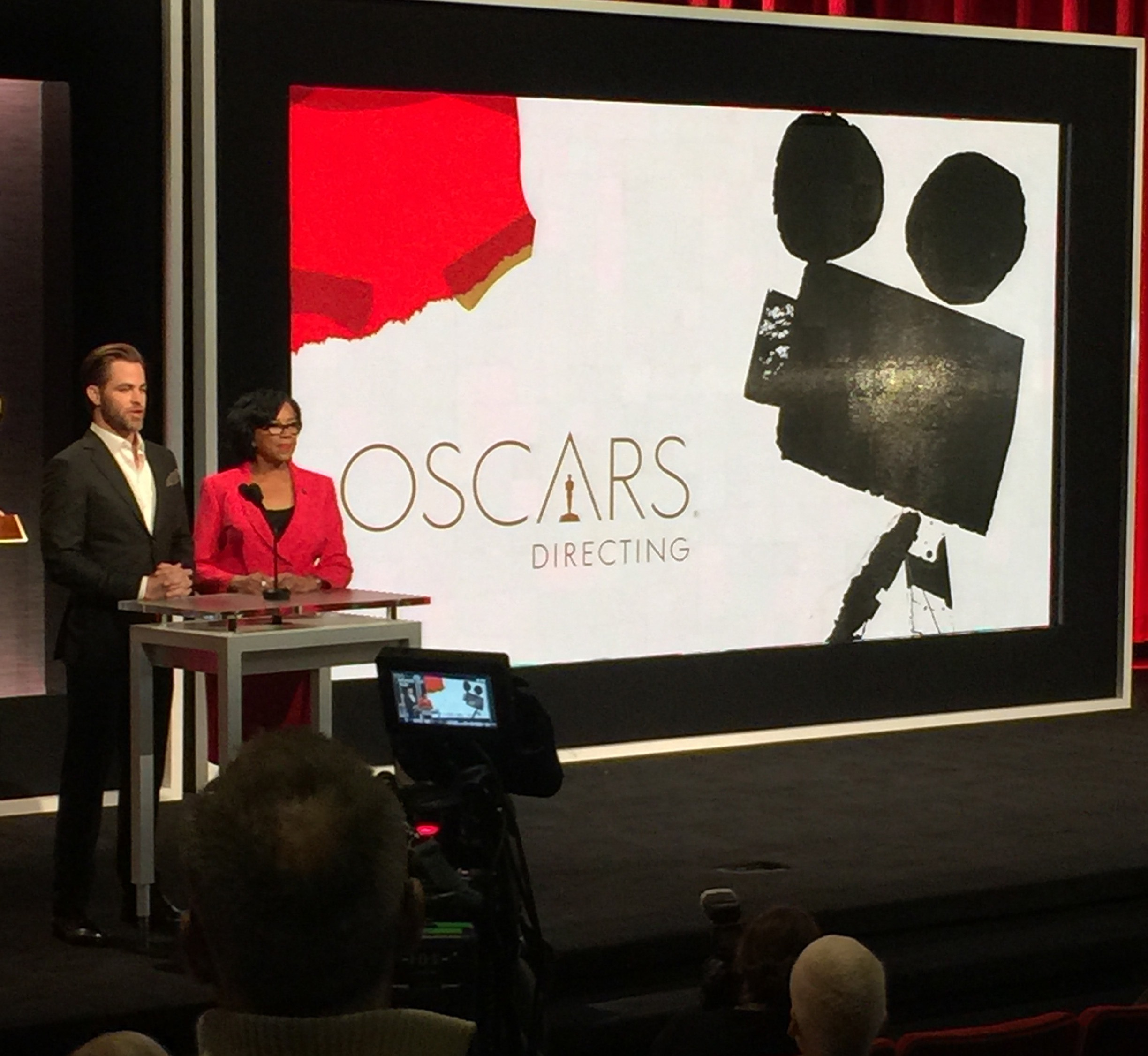 Chris Pine, actor, and Academy President Cheryl Boone Isaacs at the 87th Oscars Nominations Announcement Mingle Media TV and Red Carpet Report host Cathy Kelley were invited to come out to cover the live nomination announcement of the 87th Academy Awards at the early morning telecast presented by Academy President Cheryl Boone Isaacs along with Directors Alfonso Cuarón and J.J. Abrams and actor Chris Pine.